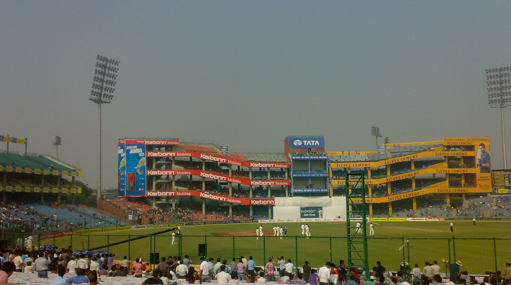 West Indies vs India Test Match in progress at the Feroz Shah Kotla Cricket Stadium, Delhi